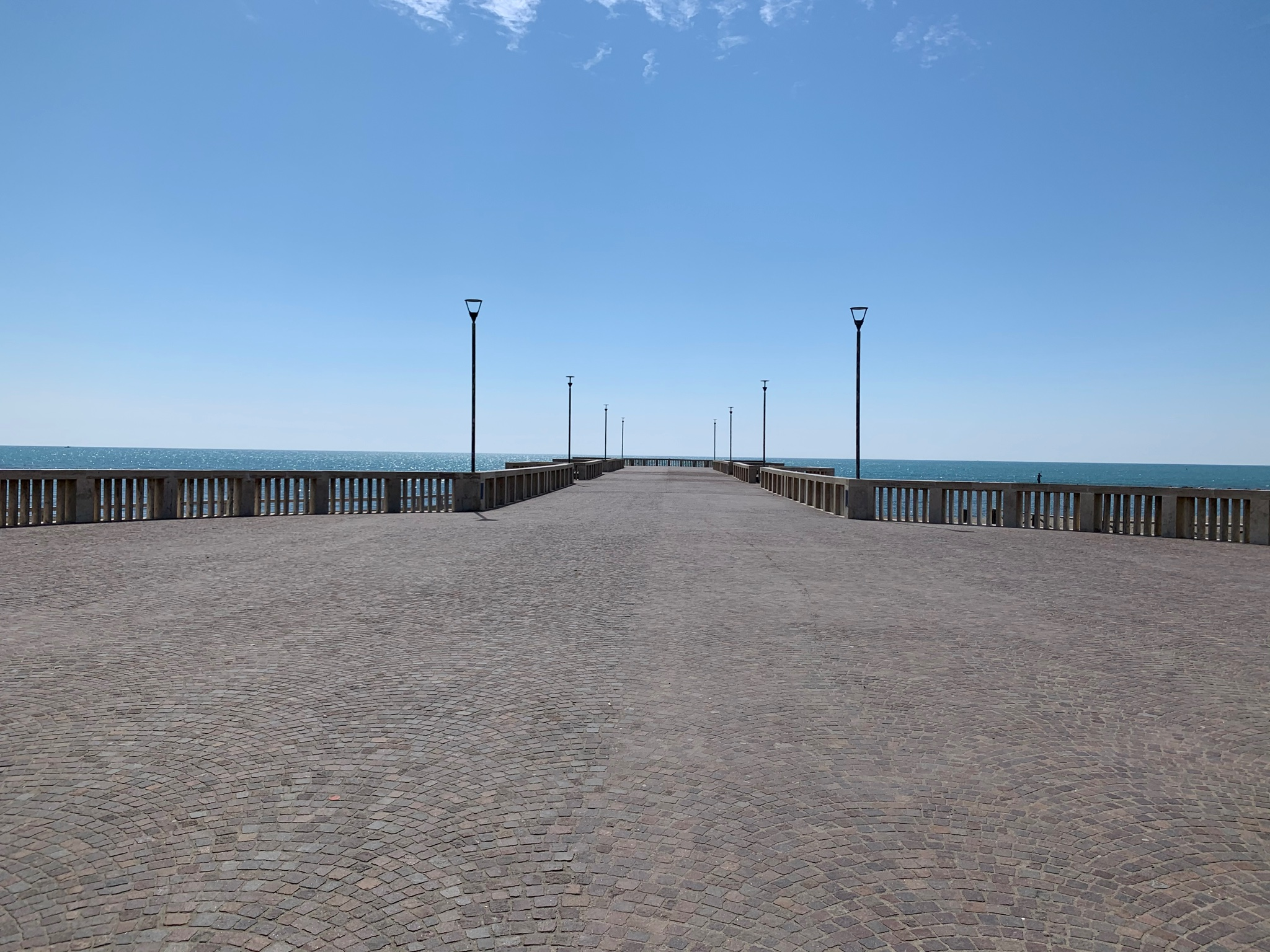 Lido di Ostia Pier, March 2020